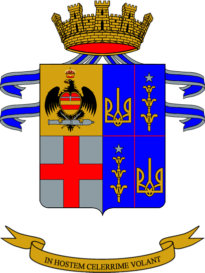 Coat of Arms of the Horse Artillery Regiment "Volòire"; Italian Army.